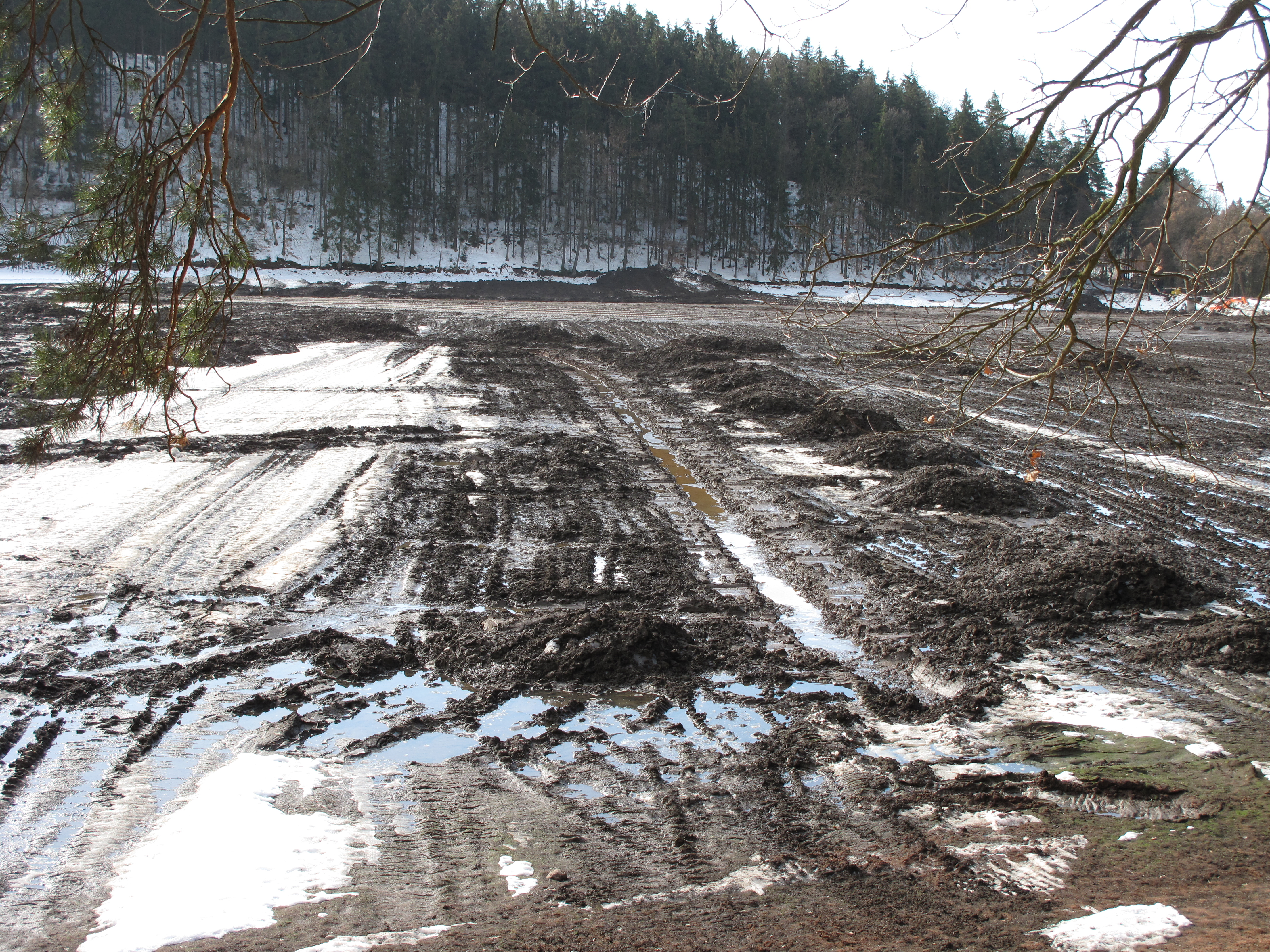 Silt removal in Propast Pond, Hradec (Stříbrná Skalice), Prague-East District, Czech Republic. Drainage lines.